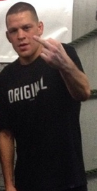 UFC fighter Nate Diaz flipping his middle finger, a gesture that he uses to taunt his opponents. Picture was taken in Mexico City before the start of UFC 188.